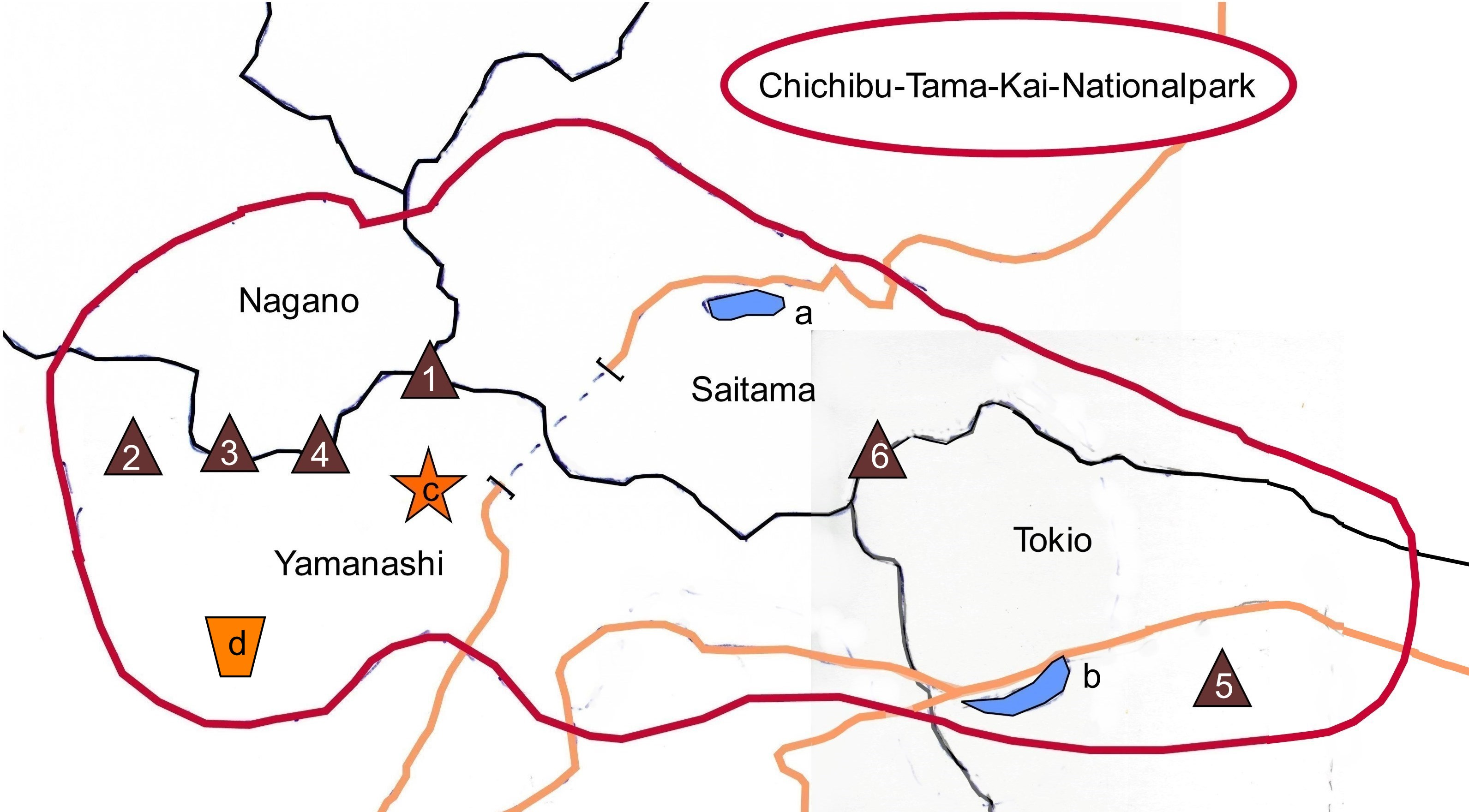 Chichibu-Tama-Kai National Park rough map